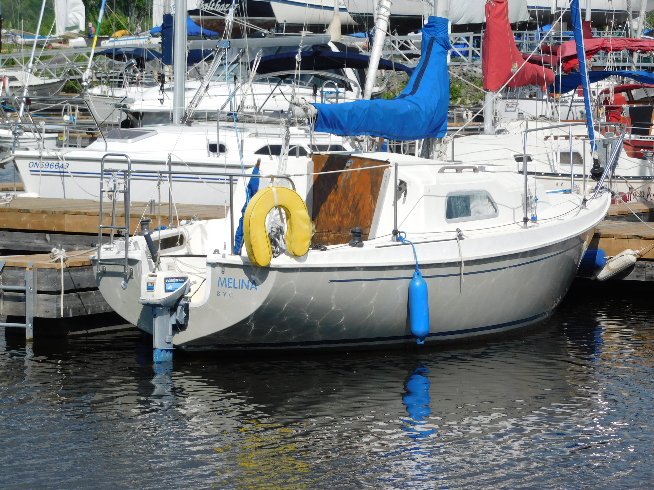 A Pearson 26 sailboat named Melina, showing the transom configuration.